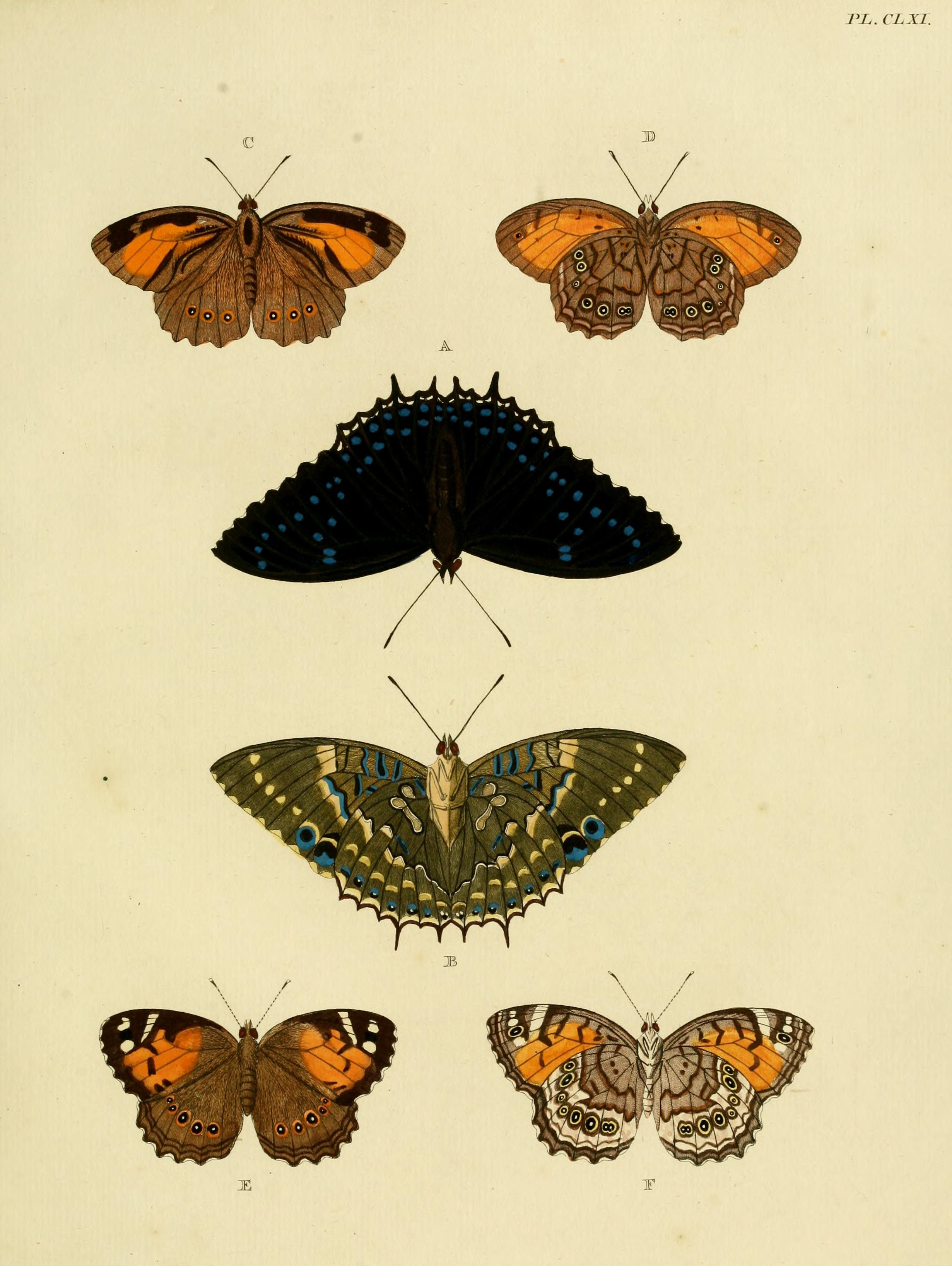 Plate CLXI A, B: "(Papilio) Tiridates" ( = Charaxes tiridates, iconotype?), see Funet. Photos at Barcode of Life. C, D (male), E, F (female): "(Papilio) Roxelana" ( = Pararge roxelana, iconotype?), see The Global Lepidoptera Names Index, NMH or Kirinia roxelana, see Funet. Photos at Barcode of Life